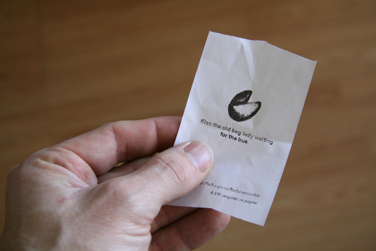 Kortunefookie thermal printer's receipt